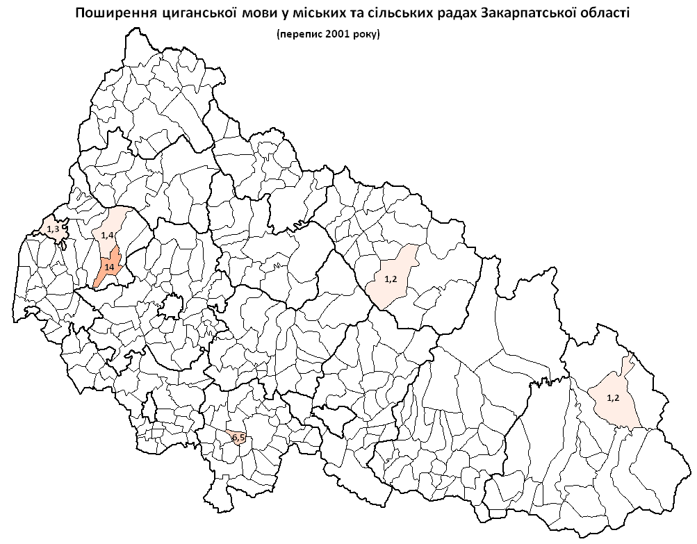 Roma as native language in Zakarpattia oblast according to 2001 census